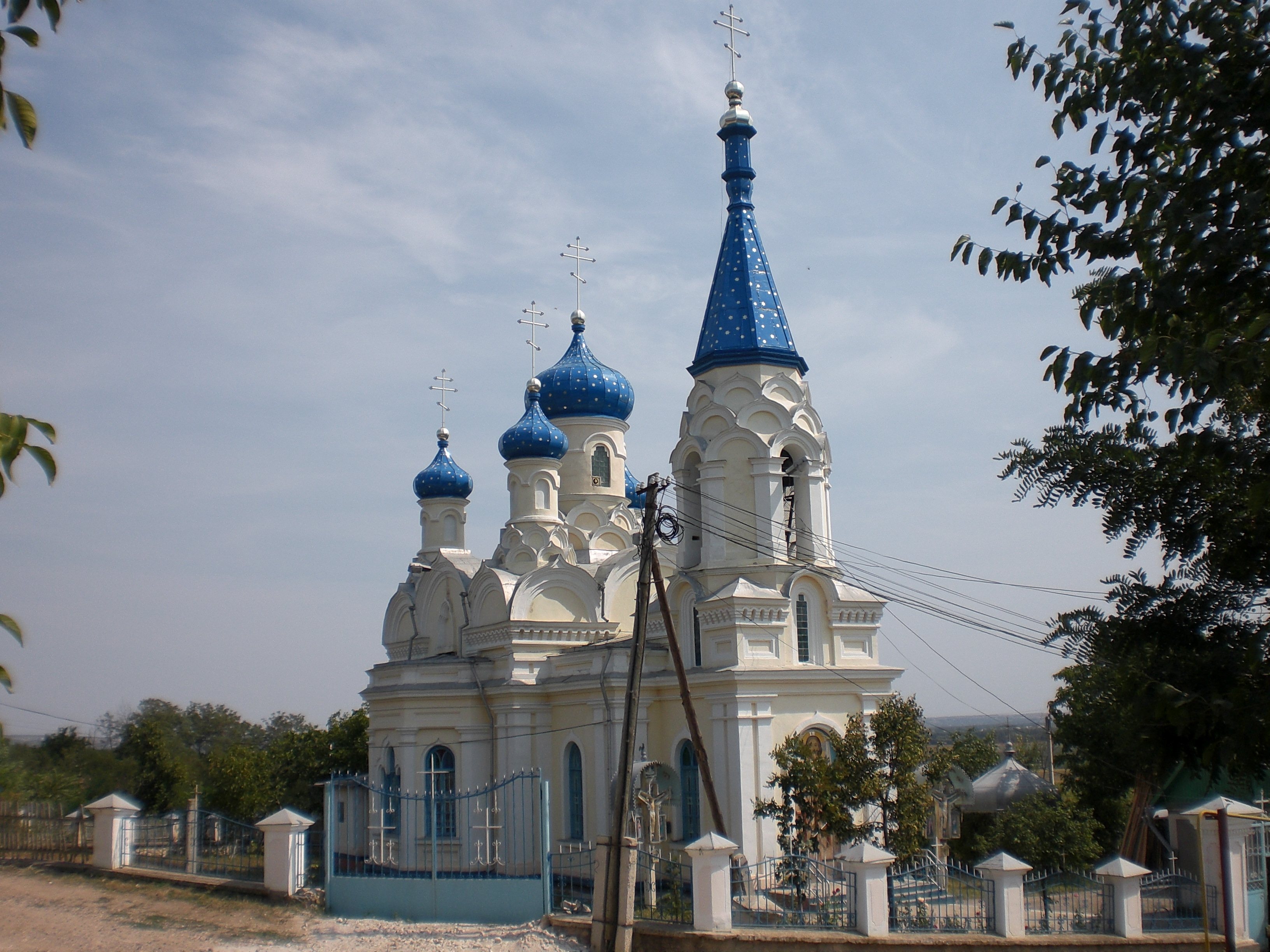 The Onitcani church. (Criuleni) Republic of Moldova